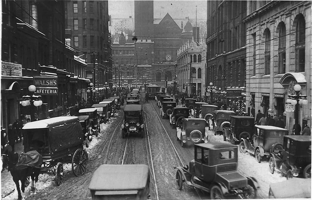 Noon hour traffic, Bay Street looking north from Adelaide Street West (Toronto, Canada).